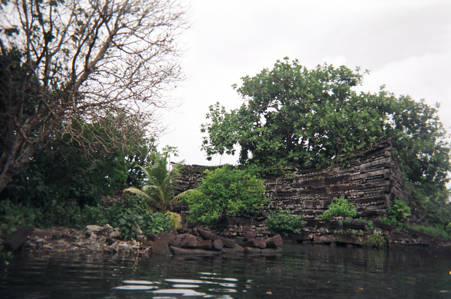 Nan Madol ruins on Pohnpei island.